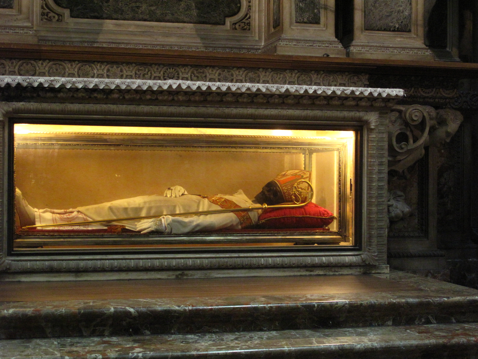 Saint John I Bono , Archbishop of Milan 641–669. San Giovanni Bono chapel in the Right Transept of the Cathedral of Milan.